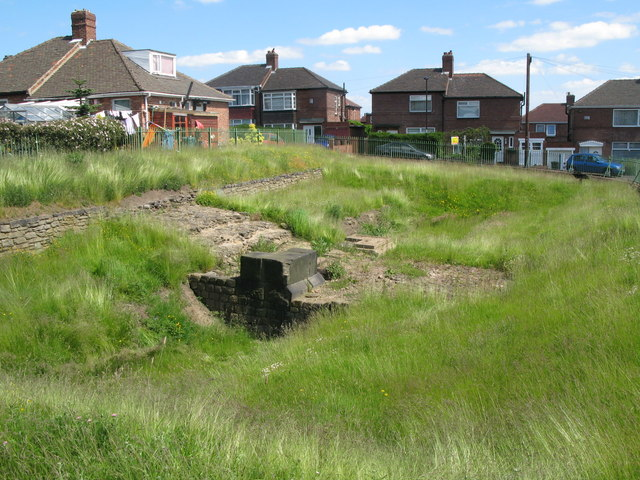 The Vallum crossing at Benwell Fort (2)